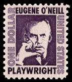 1967 stamp honoring Eugene O'Neill